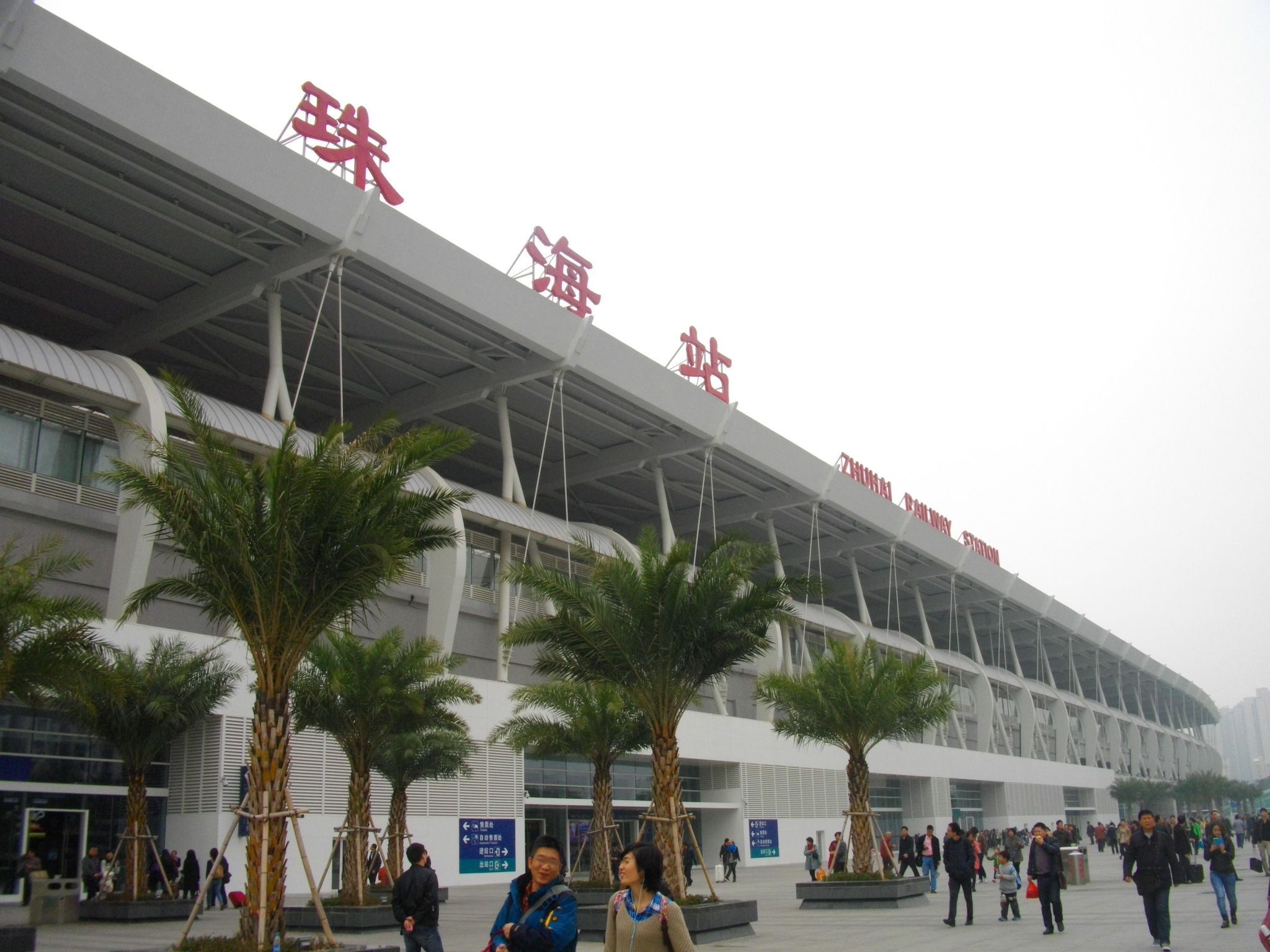 Zhuhai Railway Station